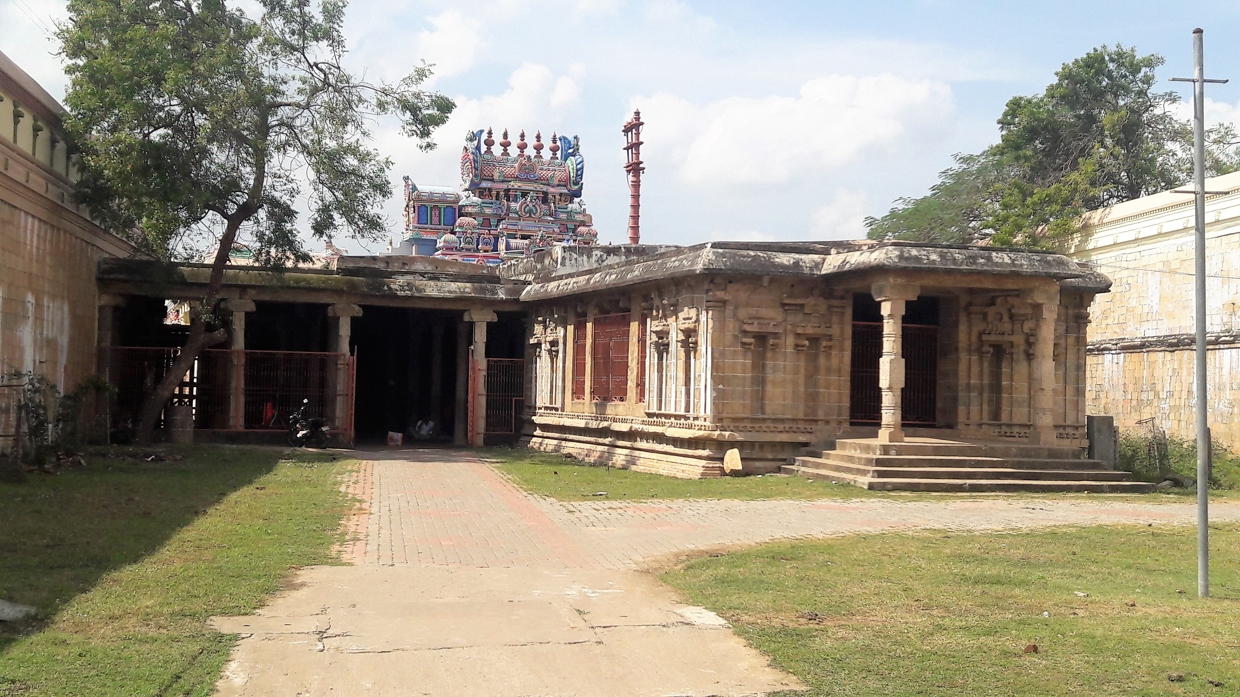 Thyagarajar temple Thiruvarur.